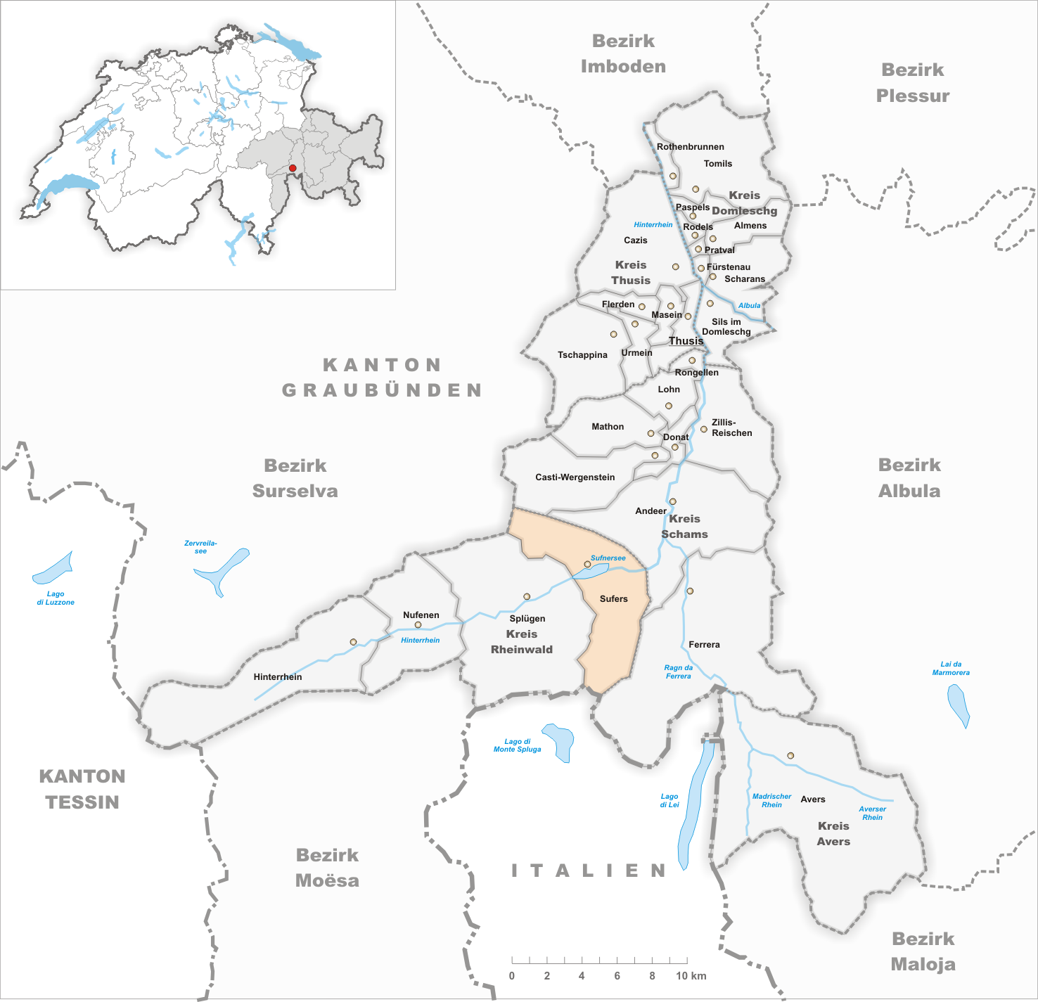 Municipality Sufers